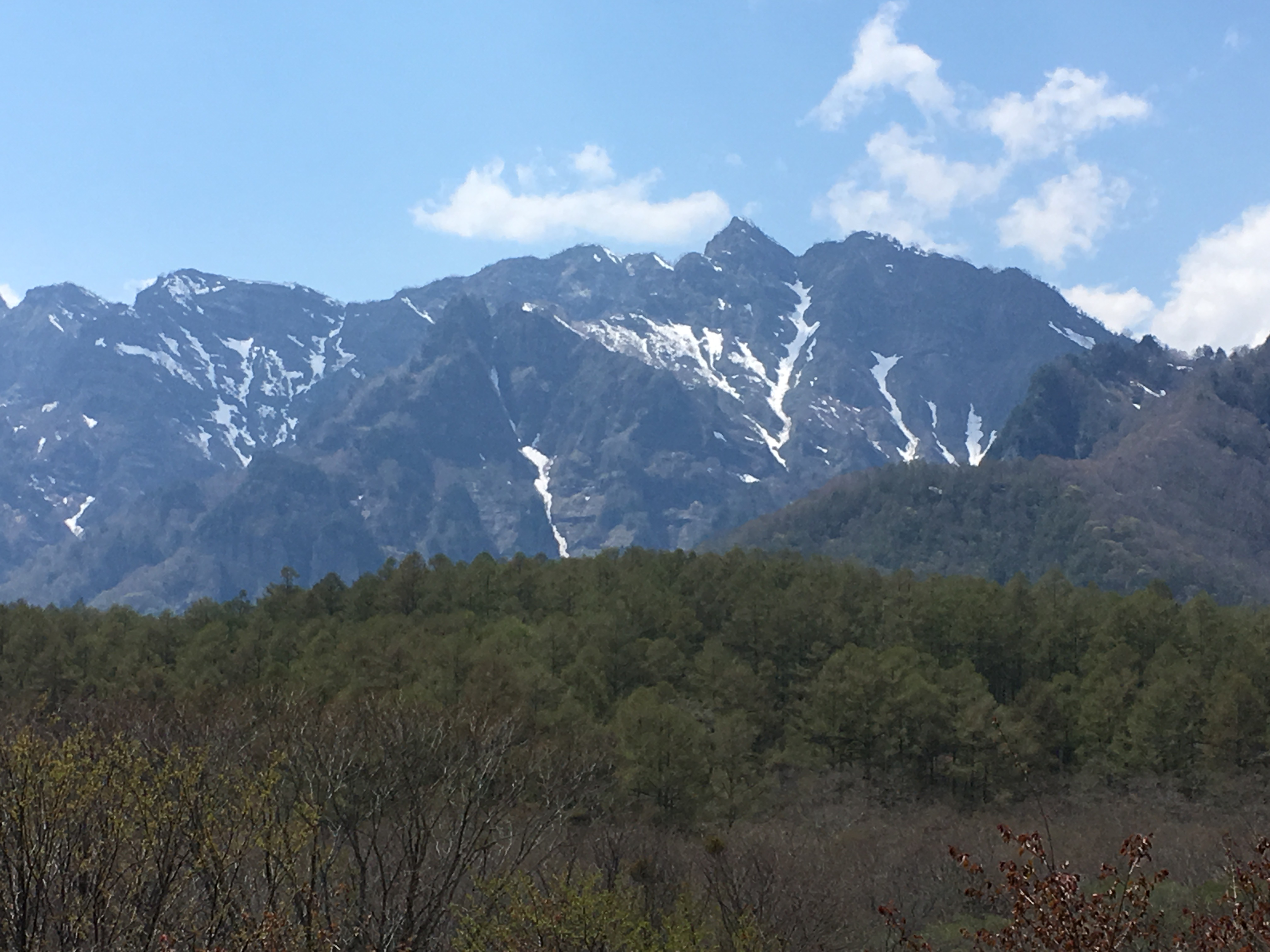 This is a photo of Mount Togakushi in the Togakushi district of Nagano (city).